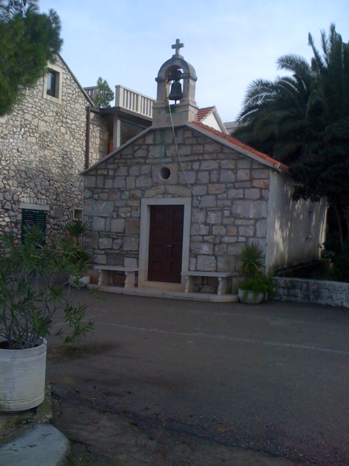 Chapel in Lovište